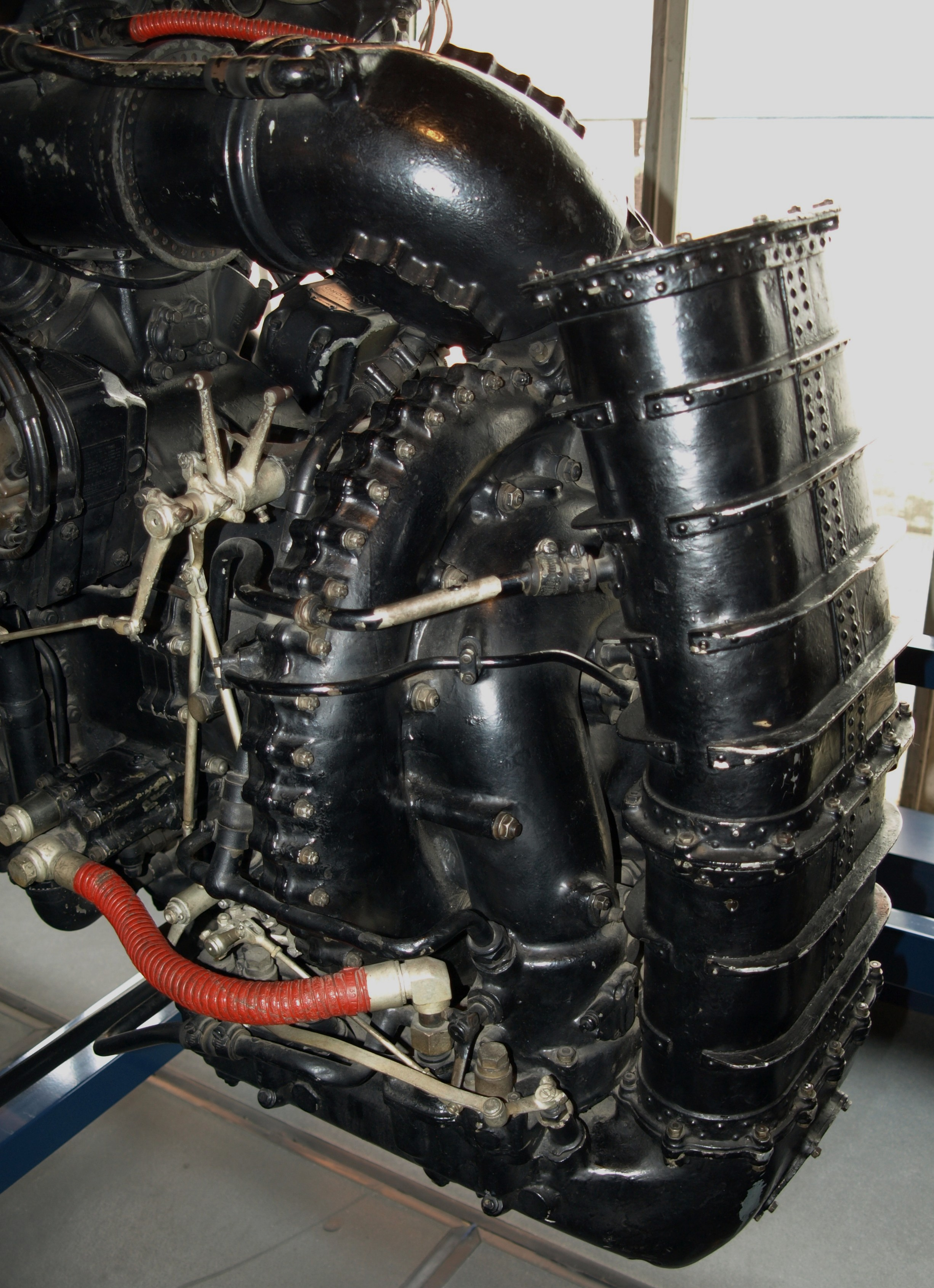 Supercharger detail of the Rolls-Royce R aero engine (Science Museum, London)